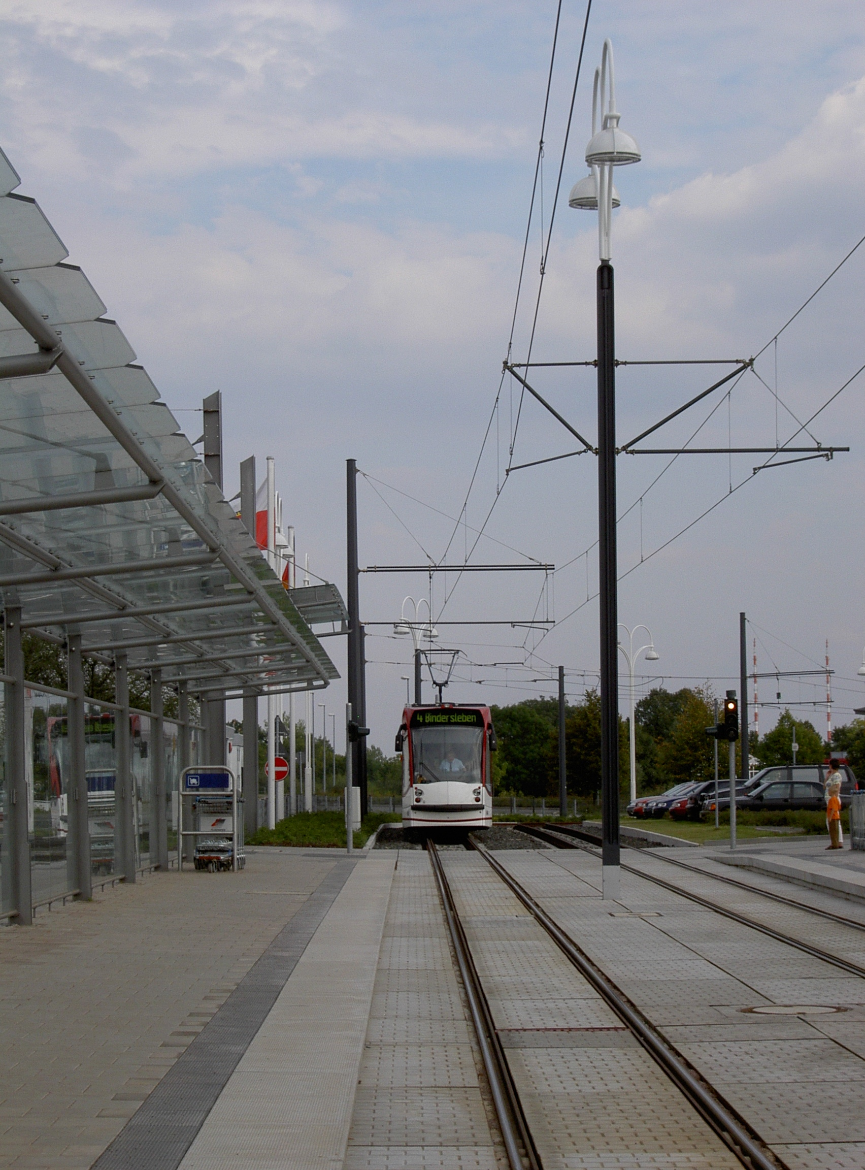 "Stadtbahn" am Flughafen Erfurt